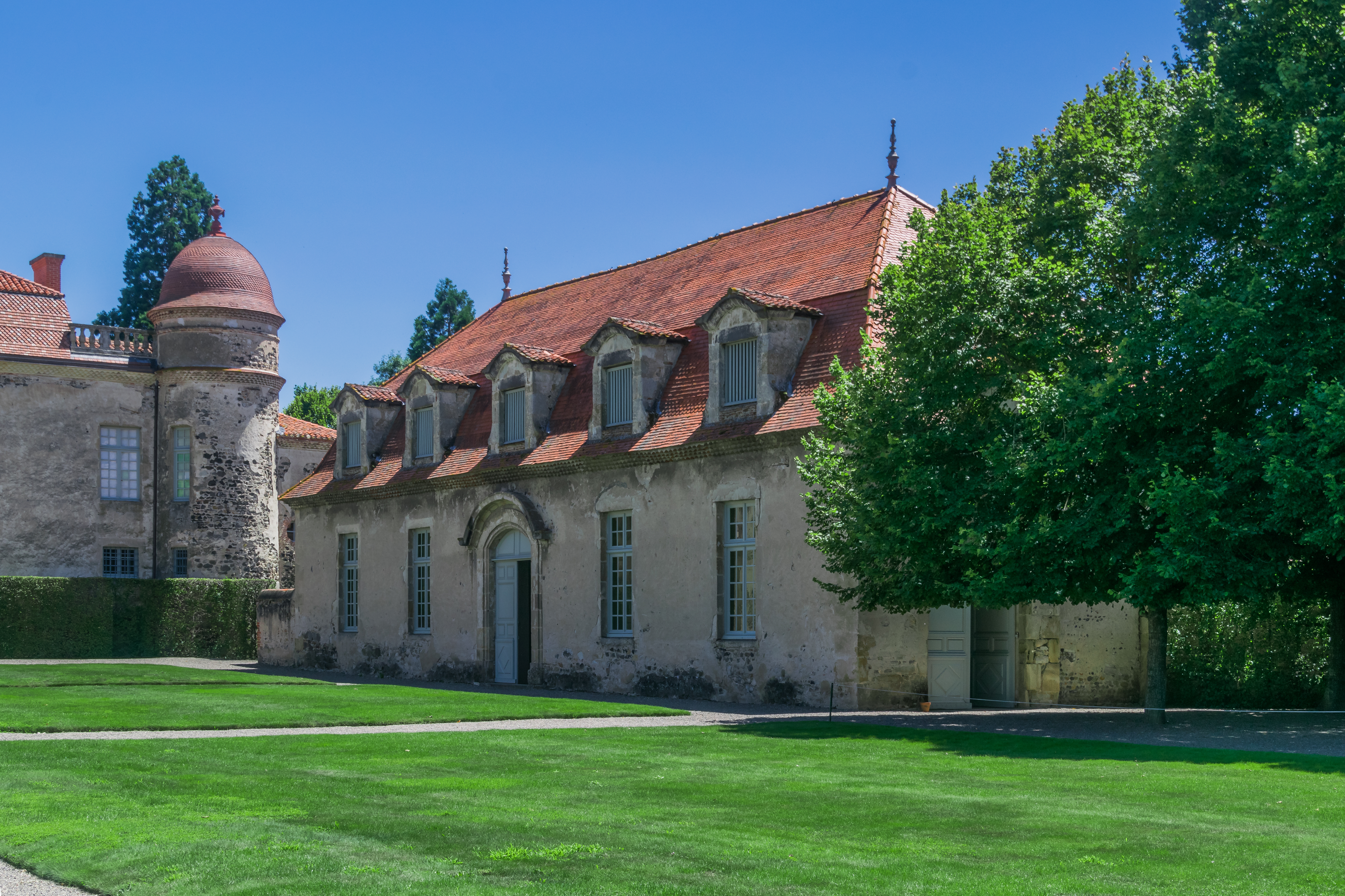 Orangery of the Castle of Parentignat, Puy-de-Dôme, France .